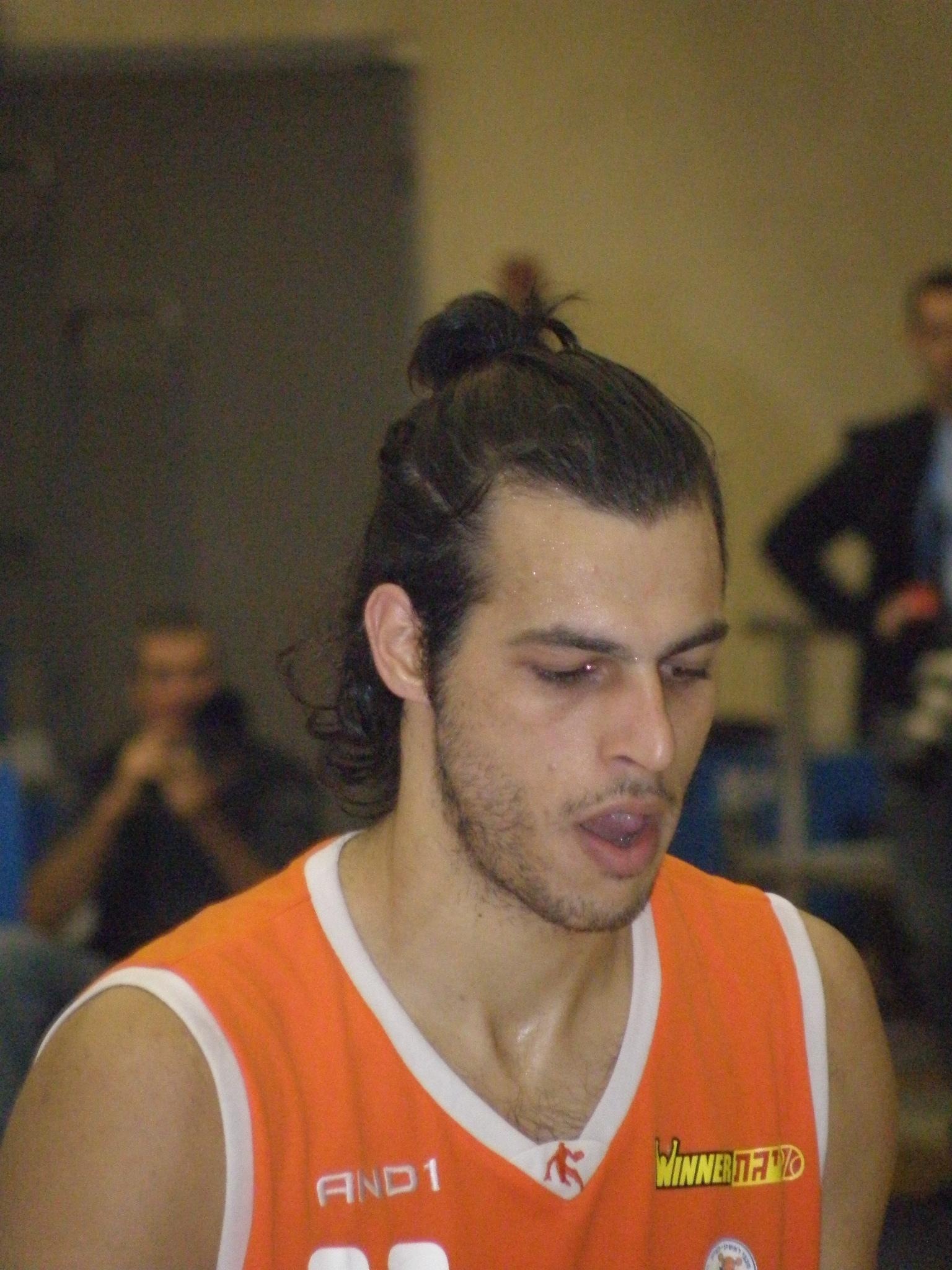 Avi Ben Shimol, Israeli basketball player